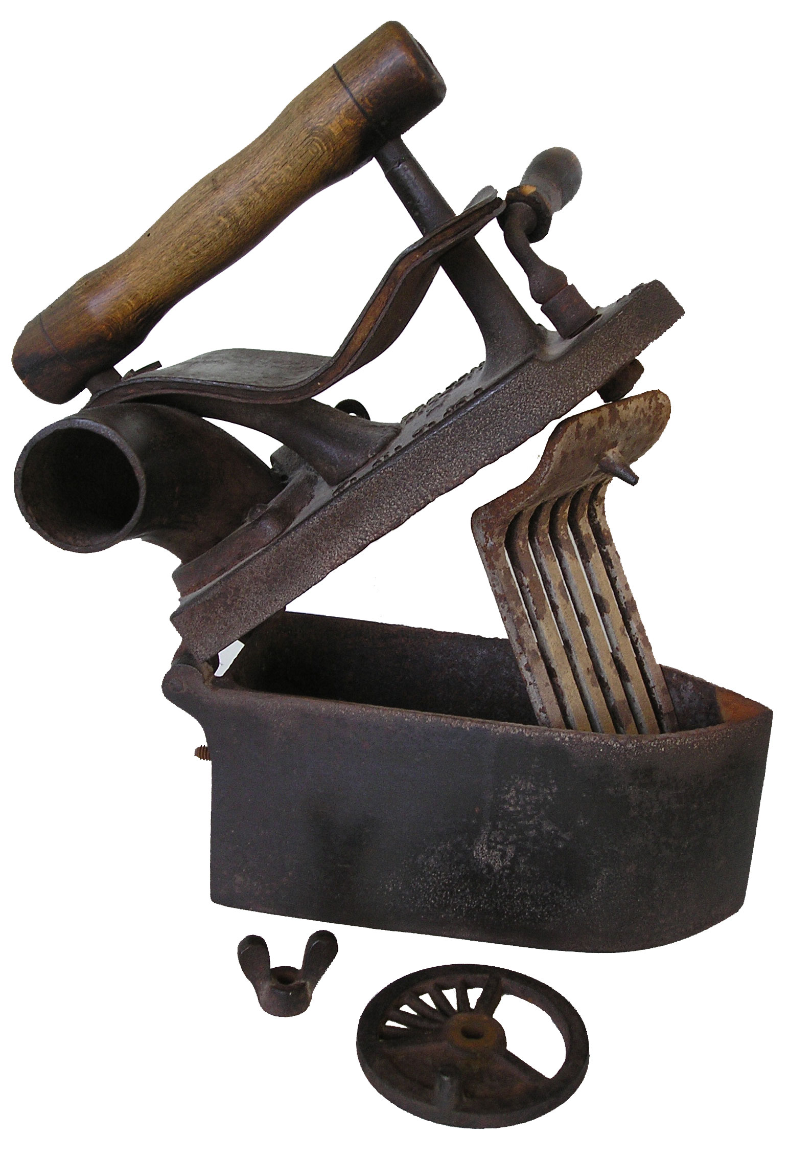 Charcoal iron (open)